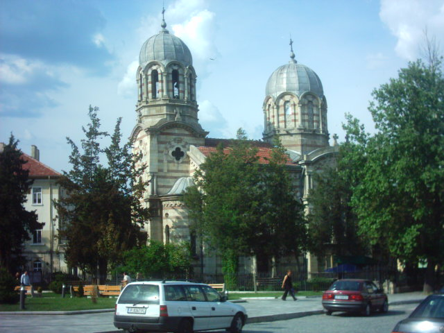 St. George's Church in Byala, Rousse District